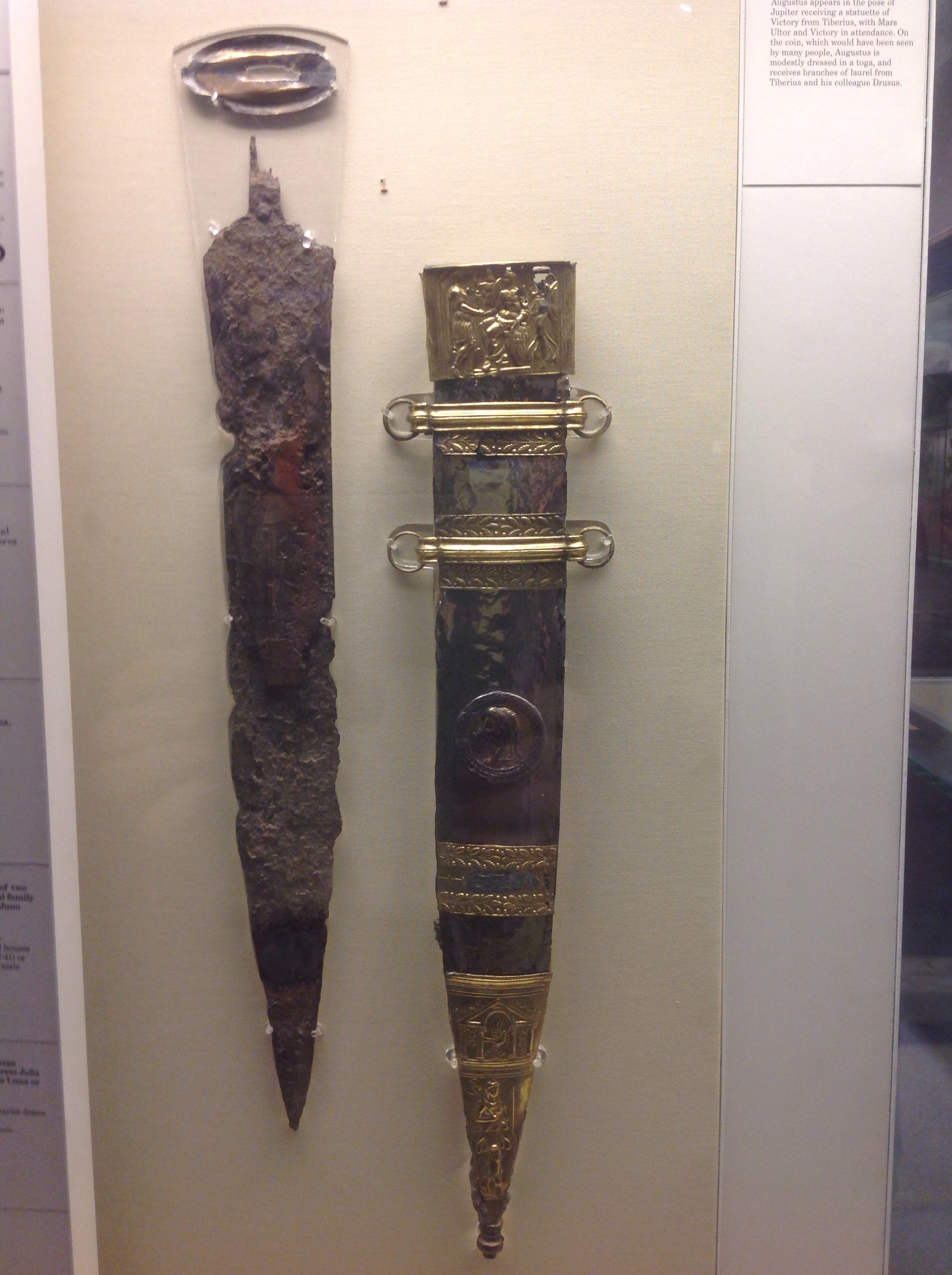 Roman sword from Germany